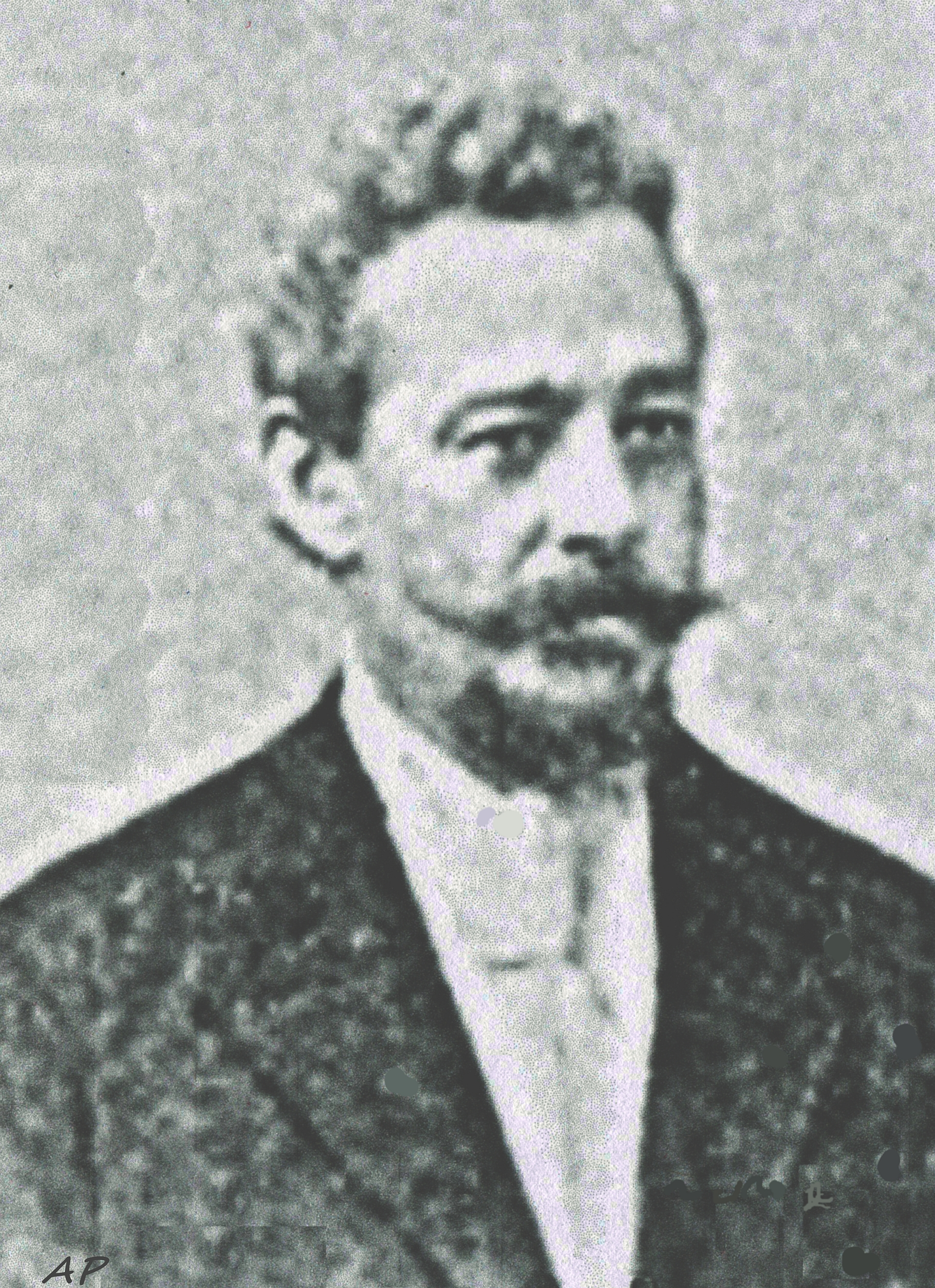 The Moritzburger stage and landscape painter Emil Rieck in 1892